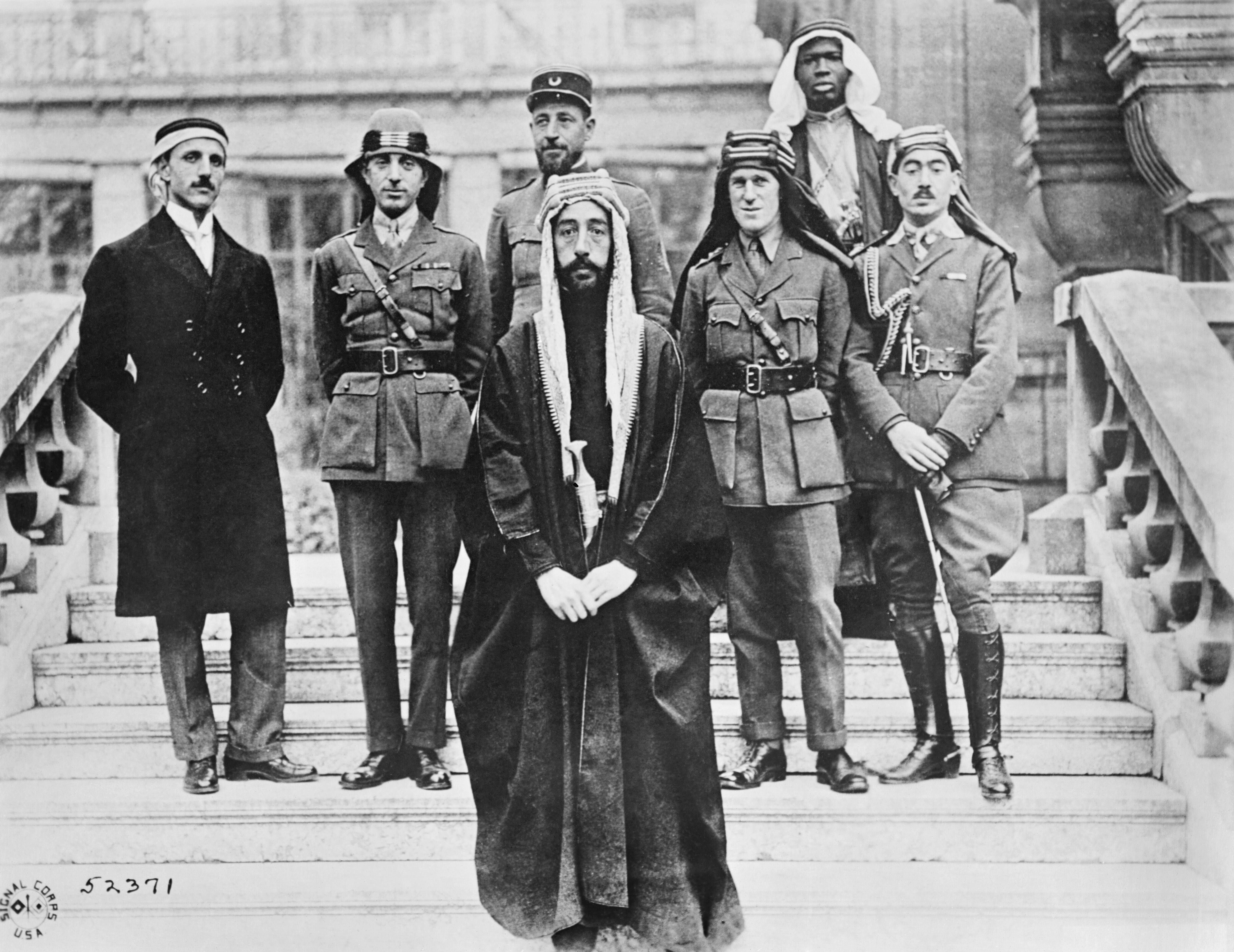 T E Lawrence 1888-1935 The Arabian Commission to the Peace Conference at Versailles and its advisors. Emir Feisal with, from left to right, Mohammed Rustum Bey Haidar of Baalbek, Brigadier General Nuri Pasha Said, Captain Pisani, T E Lawrence and Captain Hassan Bey Kadri.